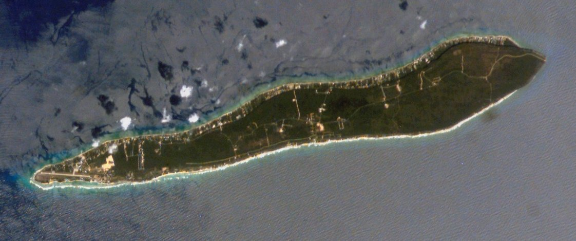 NASA Photo ID: ISS014-E-20406. Cayman Brac Island, Cayman Islands, Caribean Sea